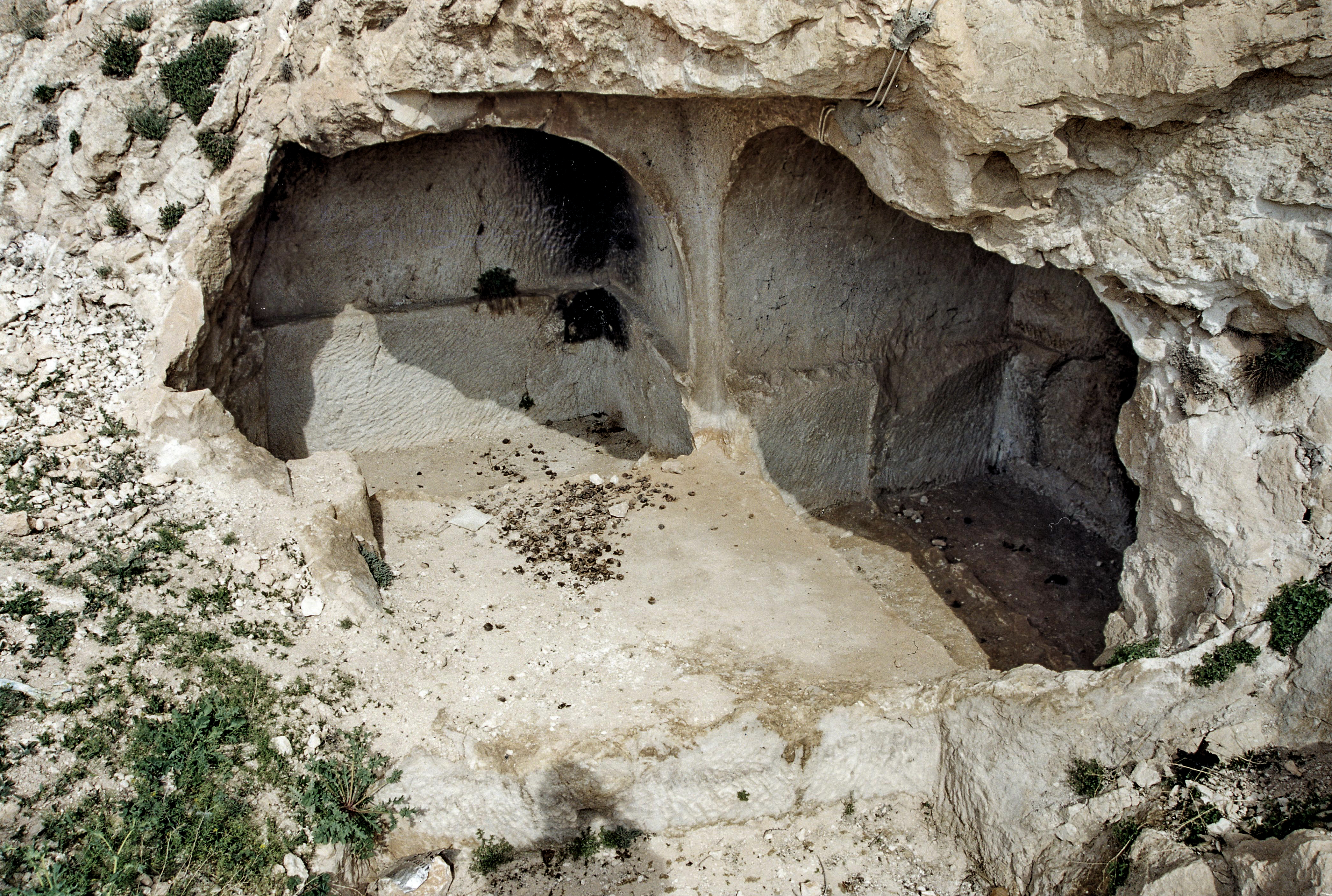 Necropolis, Yabrud in 2002